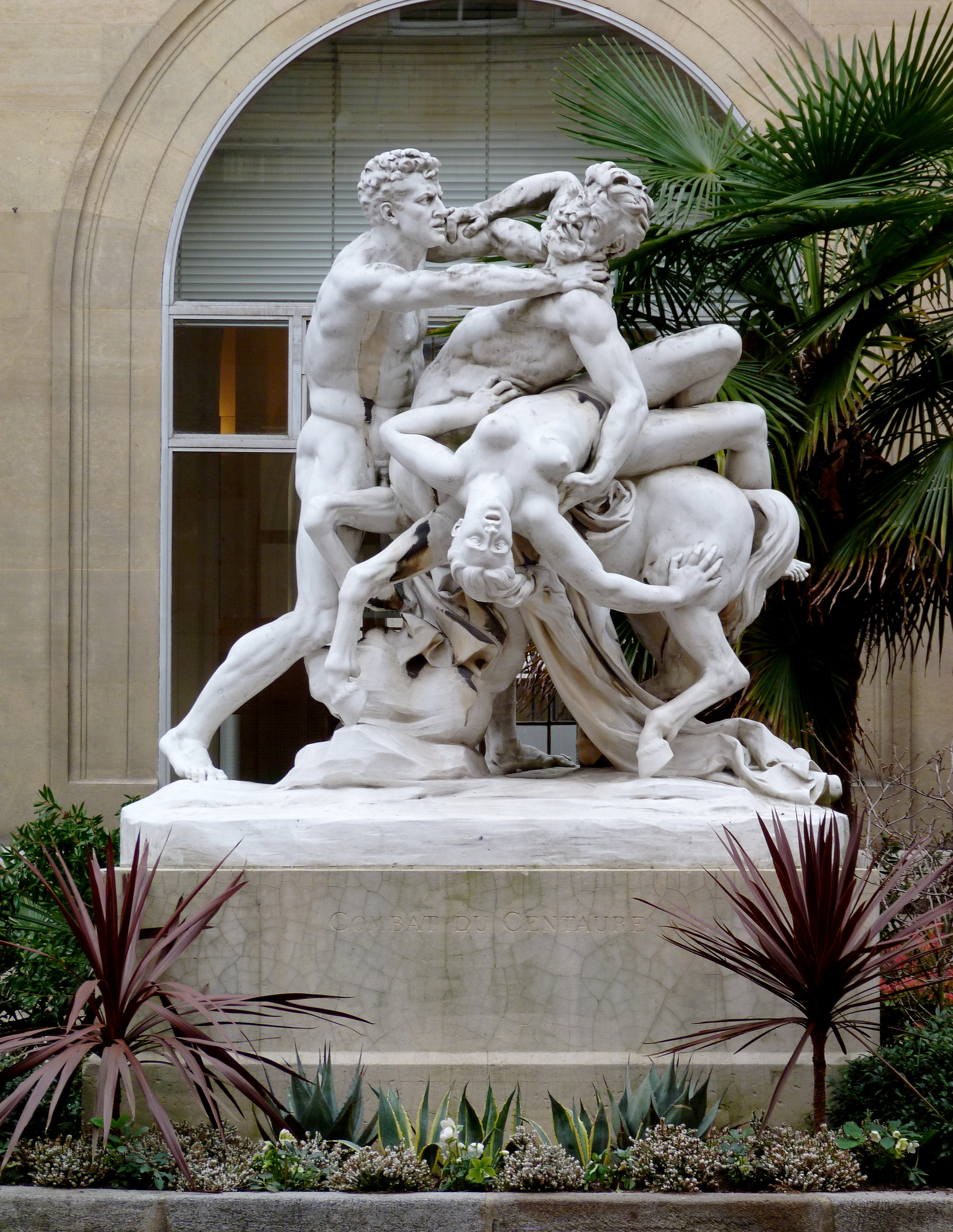 The Centaur fight, marble sculpture (1888-1900) by Gustave Crauk - Exhibited at the Exposition Universelle (1900) - Now in the city hall of 6th arrondissement, Paris